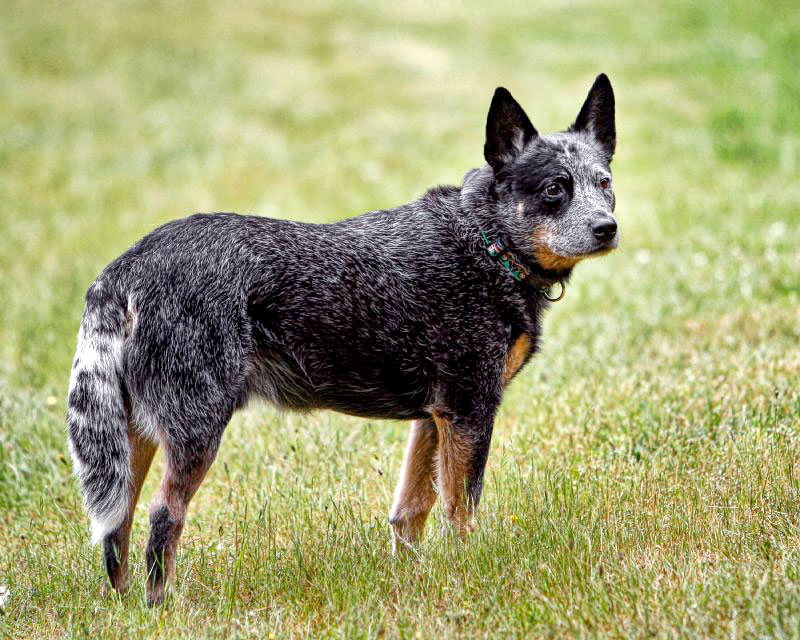 Australian Cattle Dog - mature blue male